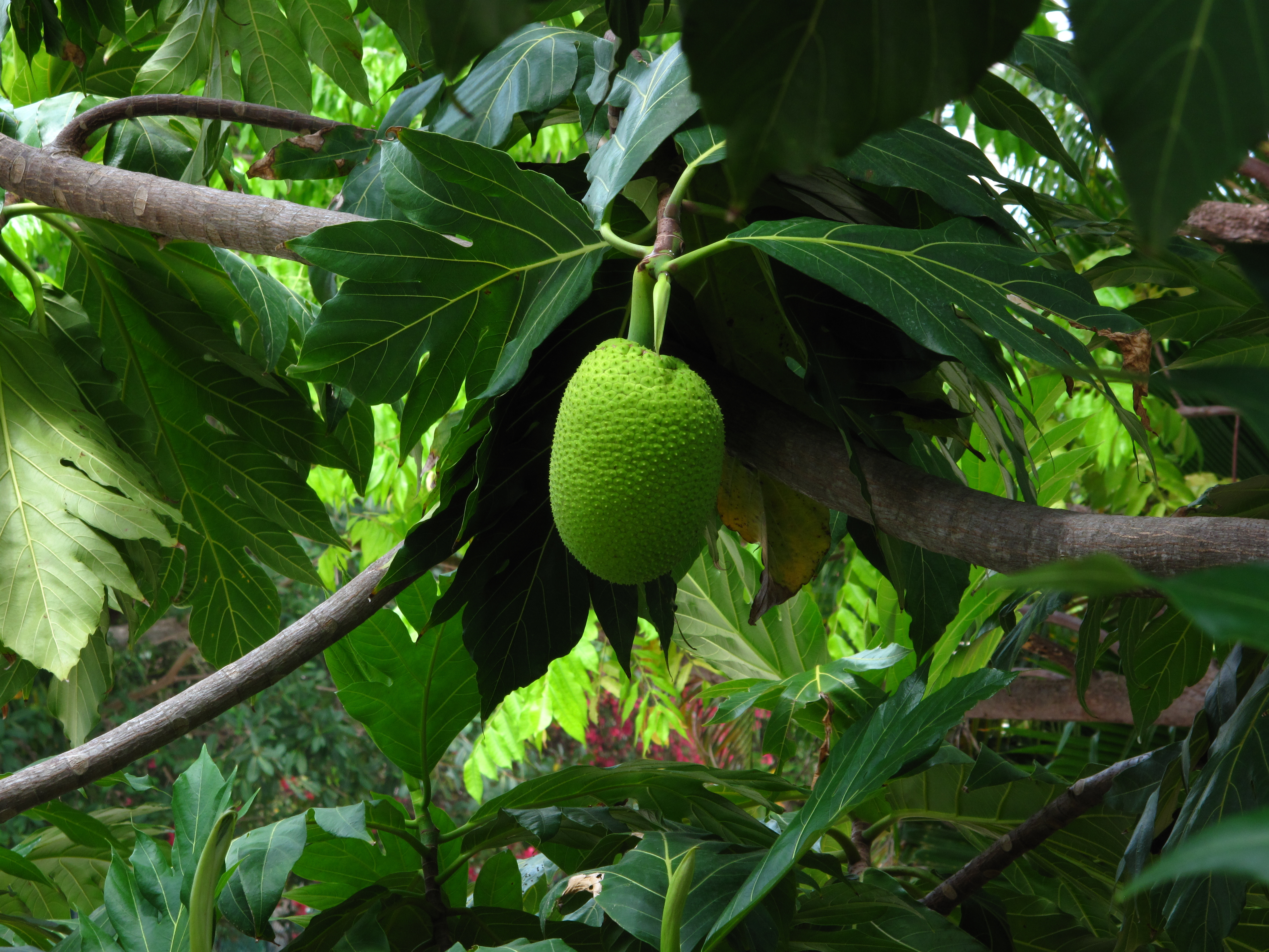 bread fruit tree and its fruit at sand andres island. colombia